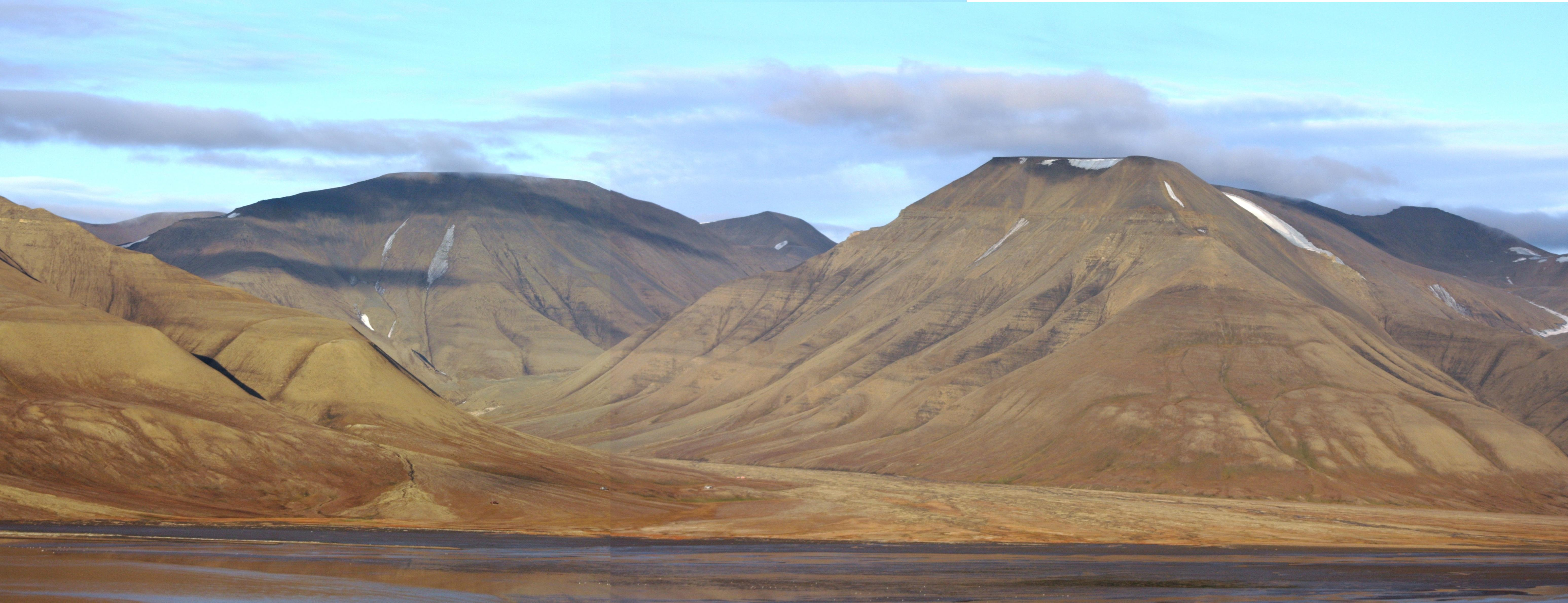 Birkafjellet and Operafjellet mountains, in Adventdalen, Spitsbergen